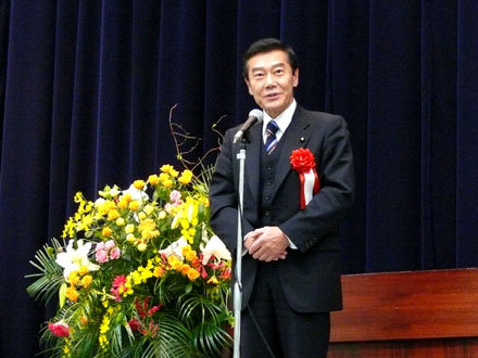 Katsuhiko Yokomitsu, Senior Vice-Minister of the Environment, addressed the Meeting for Presentation on Protection Activities of Wildlife at the Central Government Building No.5 in Chiyoda Ward, Tōkyō Metropolis on November 28, 2011.